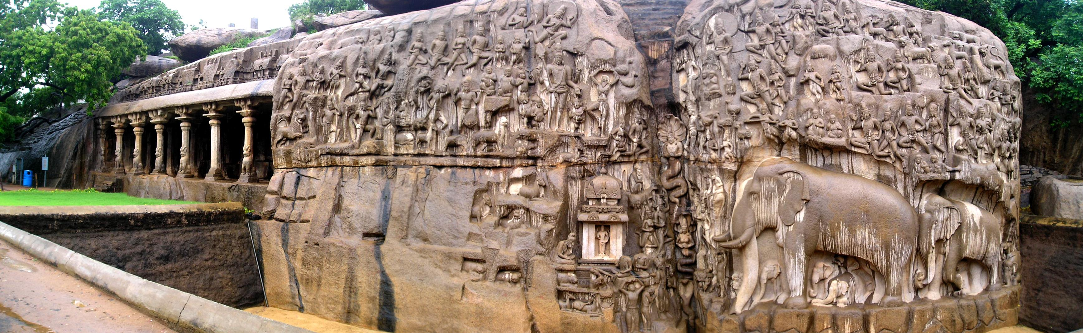 Panoramics of temples in India